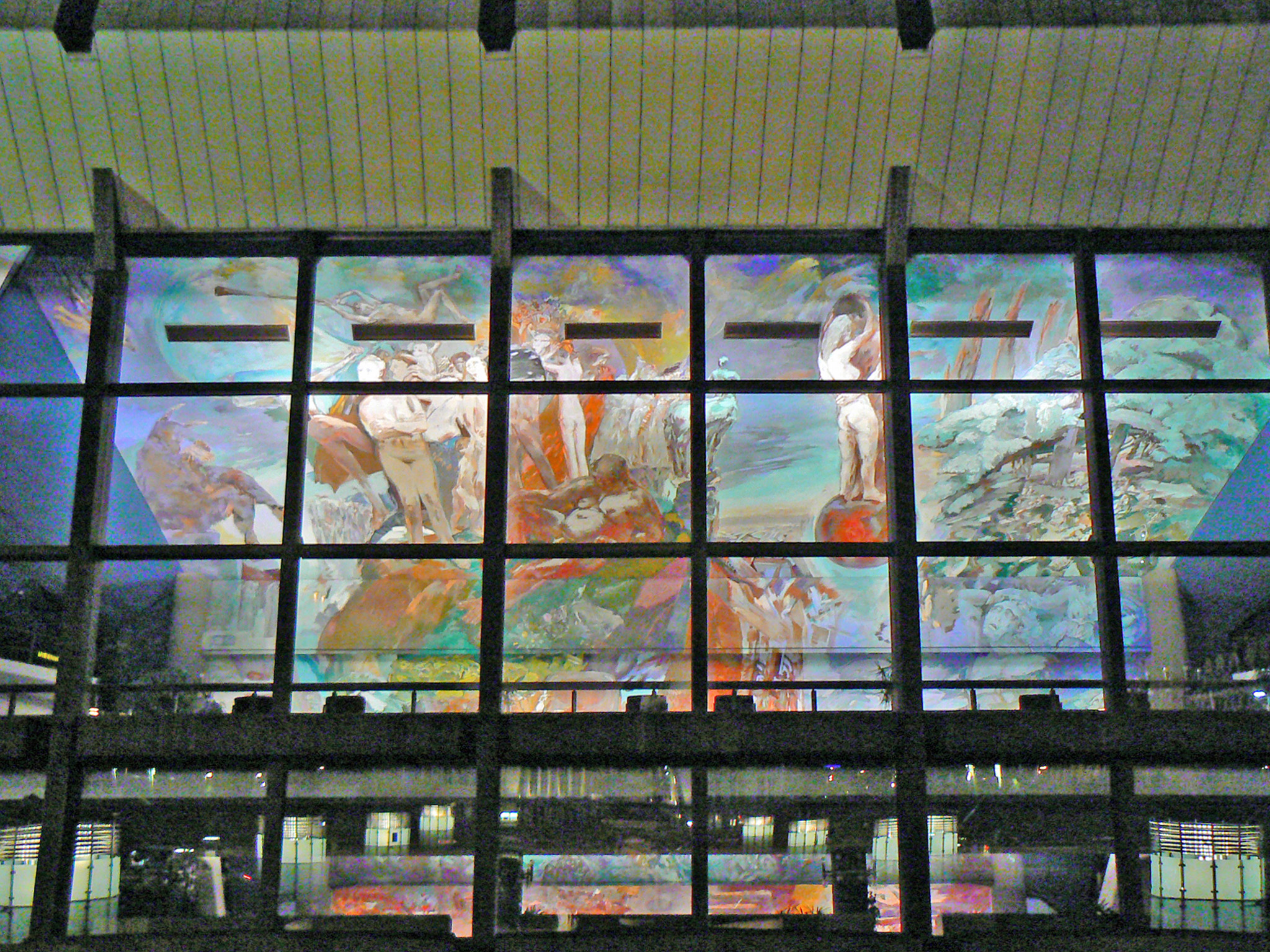 Photograph of the uppermost segment ("Lied vom Glück") of Gesang vom Leben (Song of Life), Sighard Gille's mural in the Gewandhaus foyer Camera: Panasonic DMC-FZ7 License on Flickr (2011-02-02): CC BY 2.0 Flickr tags: Leipzig, Augustusplatz, Gewandhaus, Nachtaufnahme, Deckengemälde, Deutschland, Germany, Allemagne, dierkschaefer